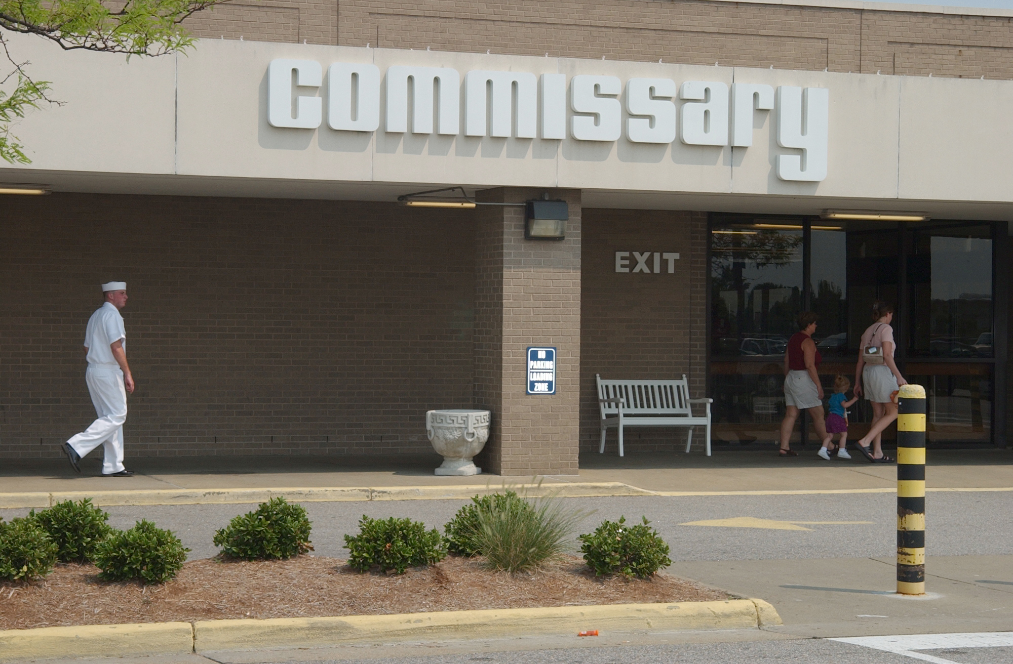 Norfolk Va. (Aug. 13, 2002) – An outside view the commissary located at Naval Station Norfolk. U.S. Navy photo by Photographer’s Mate 1st Class Shawn P. Eklund. (RELEASED)